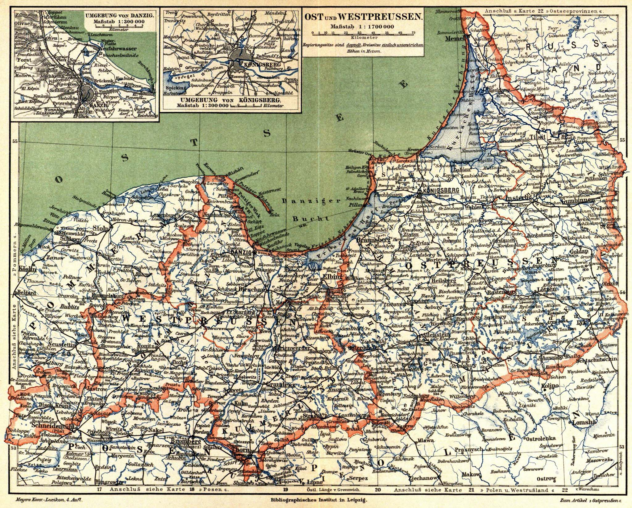 Map of the provinces of East and West Prussia in 1890.